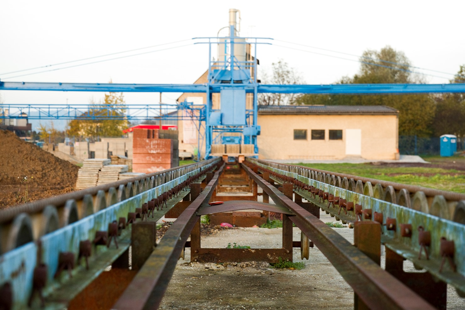 Museum der Bimsindustrie